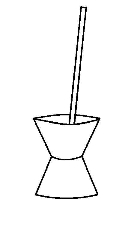 This is a picture of 'Udukhawl' (or 'Ukhawli'); a machine which is used, specially in the villages of Bangladesh, to cleaning and grinding crops